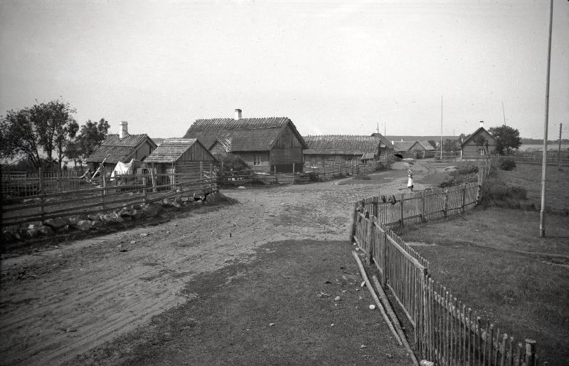 Rohuneeme village, Estonia, 1938